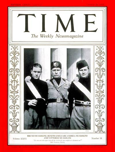 Benito Mussolini with sons Bruno (left) and Vittorio on Time cover 1935.